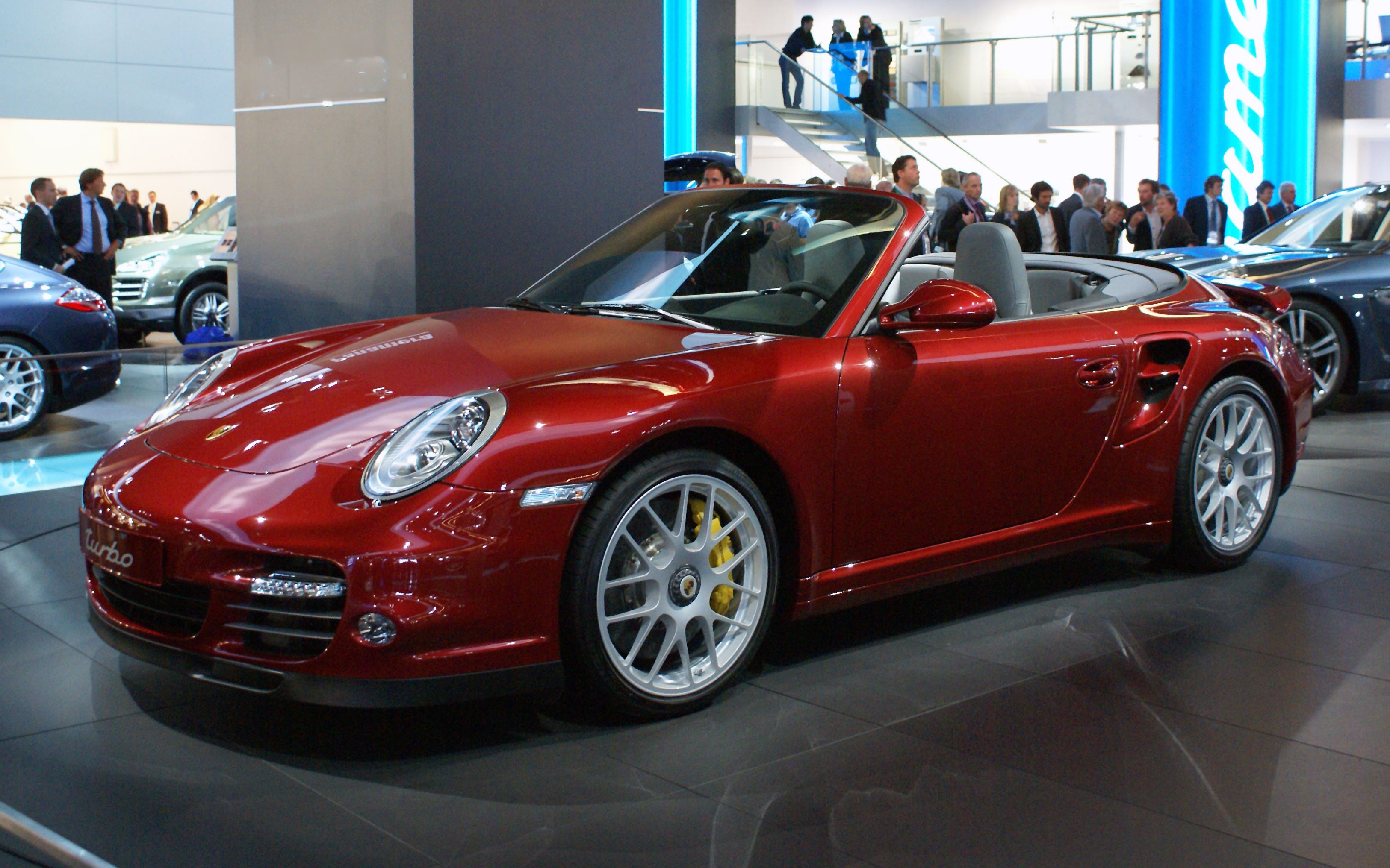 Porsche 911 Turbo Cabrio (Type 997 with facelift)